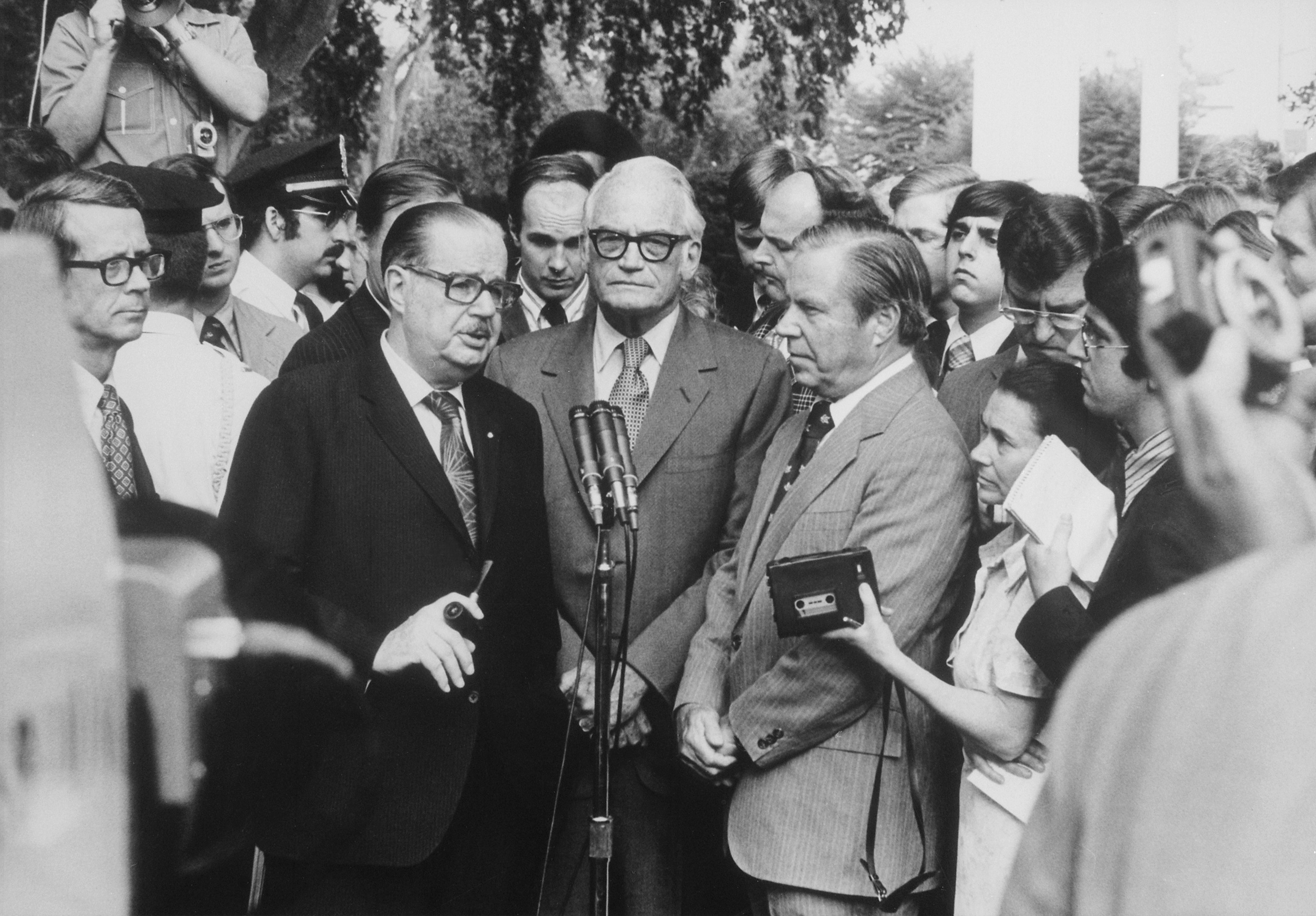 Informal press conference following a meeting between Congressmen and the President to discuss Watergate matters. Pictured: Hugh Scott, Barry Goldwater, John J. Rhodes. Last Day.